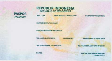 The page bearing the passport bearer's identity of the latest version of Indonesian ordinary passport.